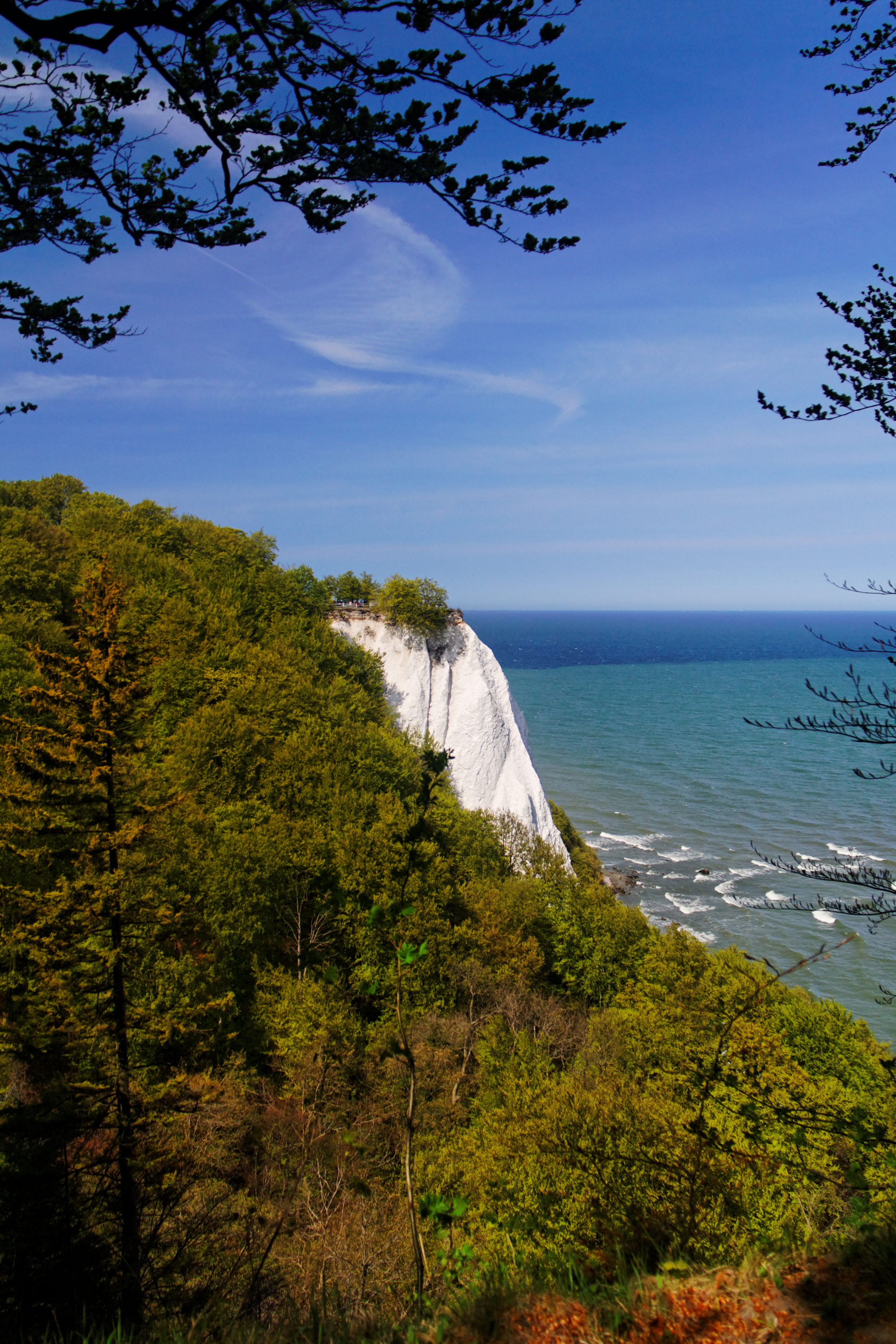 White Cliffs on the island of Rügen, Germany (Jasmund National Park - Königsstuhl) as seen from the south.